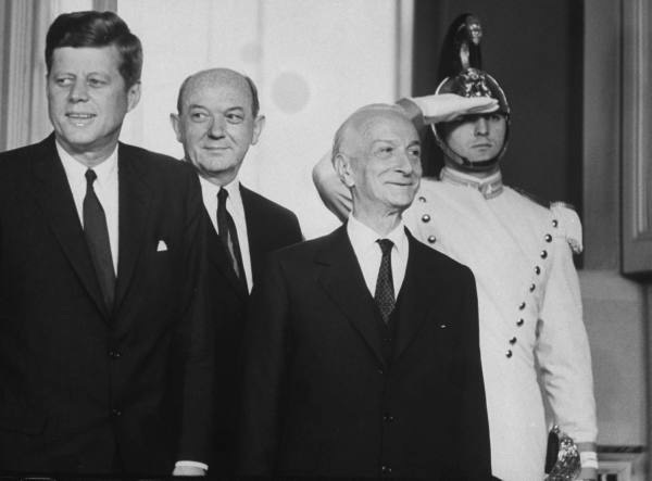 John F. Kennedy and Antonio Segni